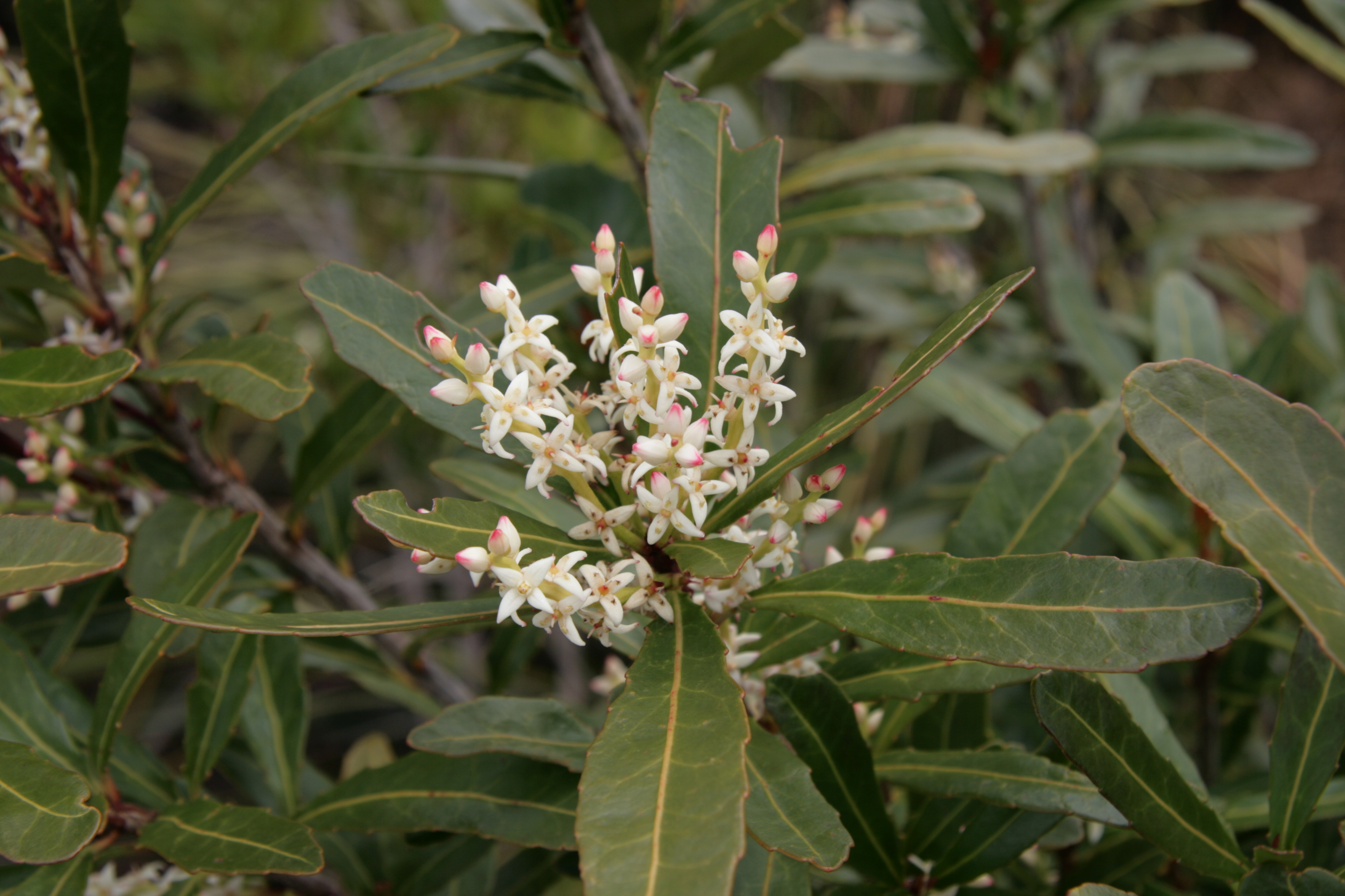 Cenarrhenes nitida, Mt Wedge, Gordon Rd